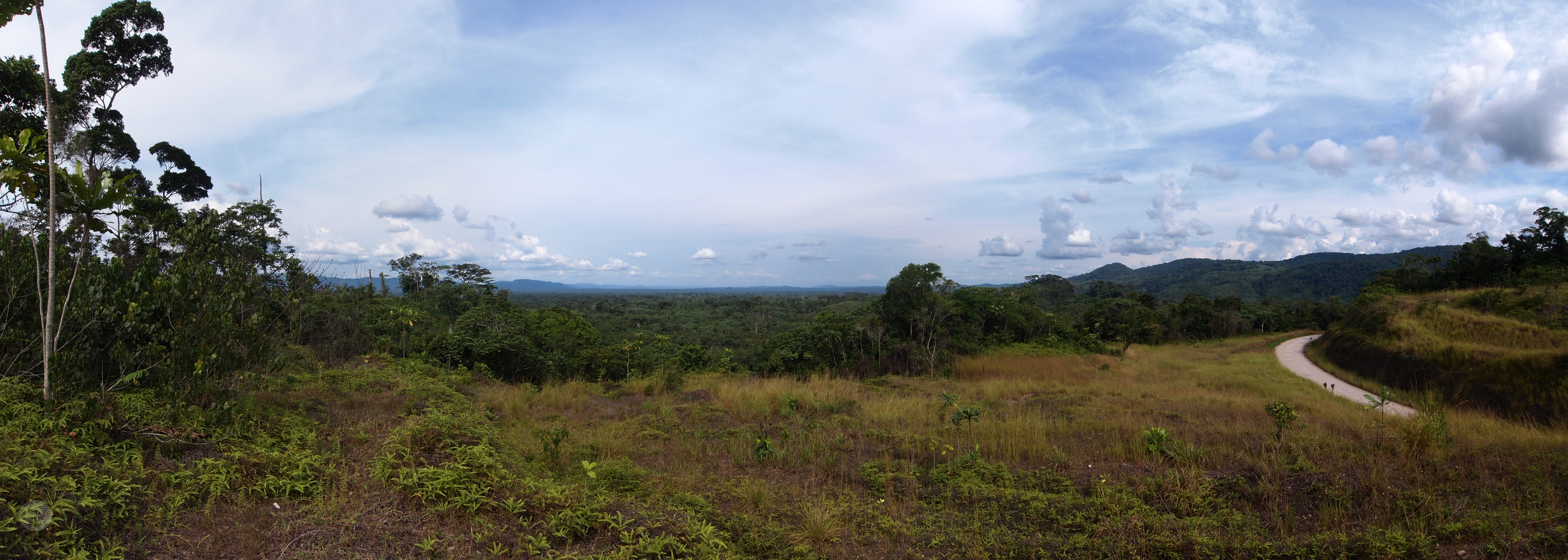 View of the Southern end of the South Sector of Maiko National Park in the Democratic Republic of the Congo. author : AV, october 2011, Frankfurt Zoological Society.